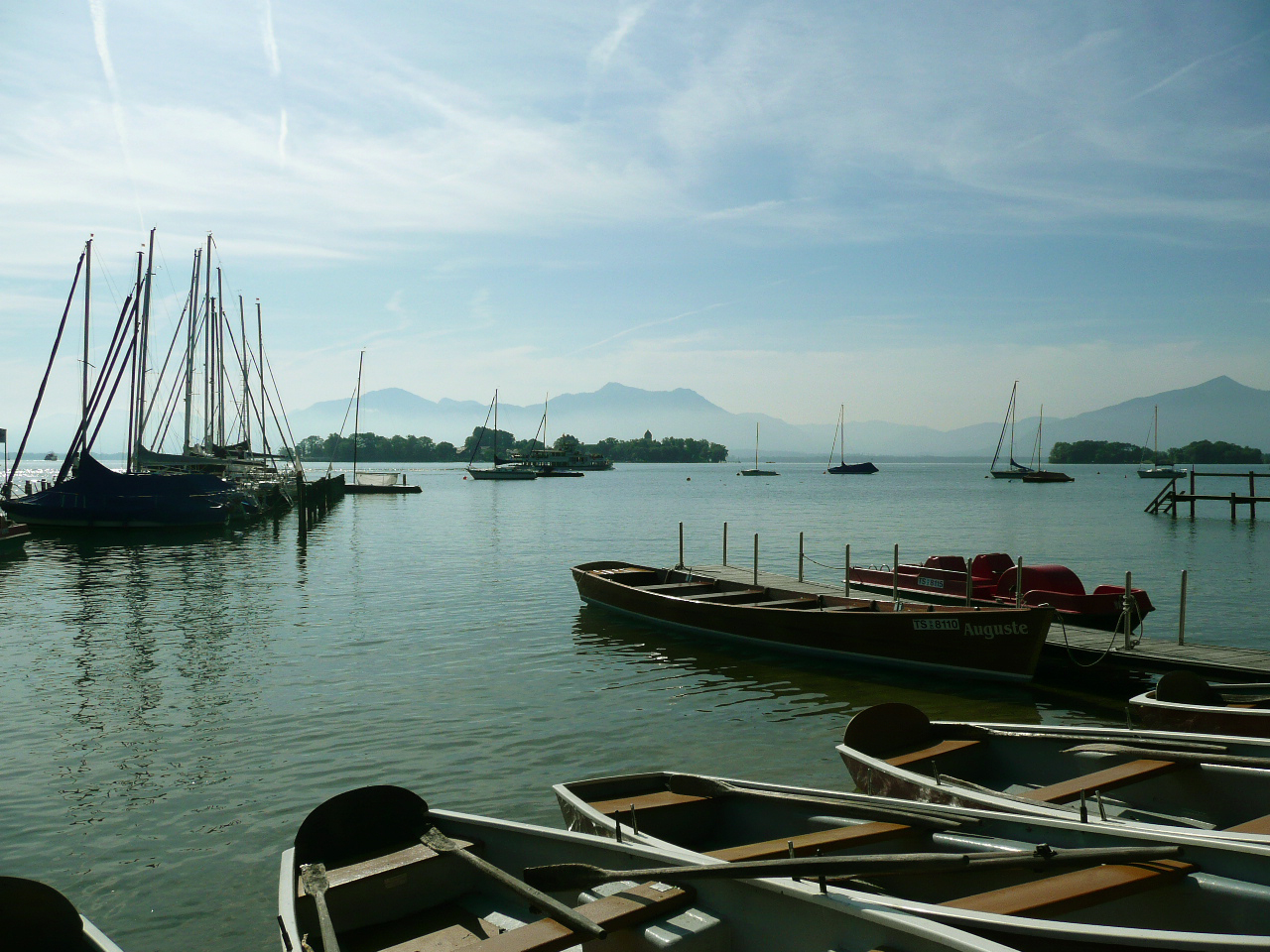 The boats at GSTADT on the Chiemsee. The island Fraueninsel in background. Upper Bavaria.